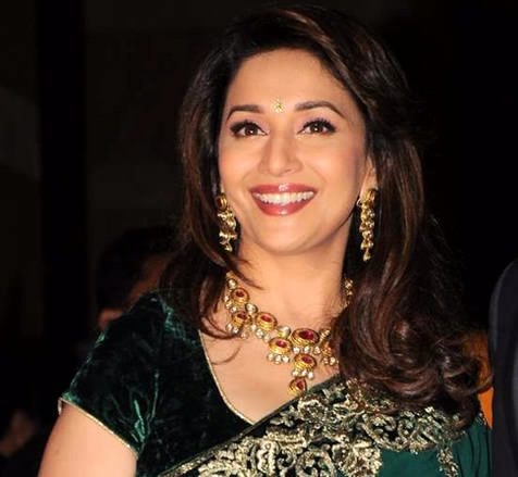 Madhuri Dixit at Riteish Deshmukh-Genelia D'Souza wedding reception